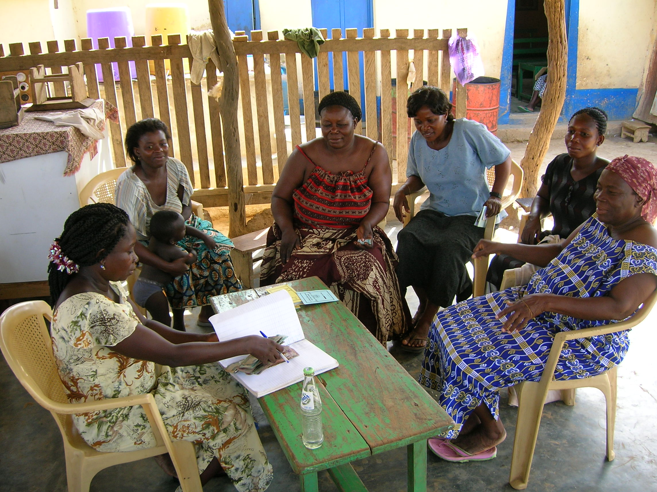 Women in Ghana administering micro credits